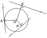 Mutual position of a line and a circle